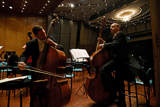 Musicians of the Israeli Philharmonic Orchestrap practicing at the jamshed Bhabha Theatre before the performance.